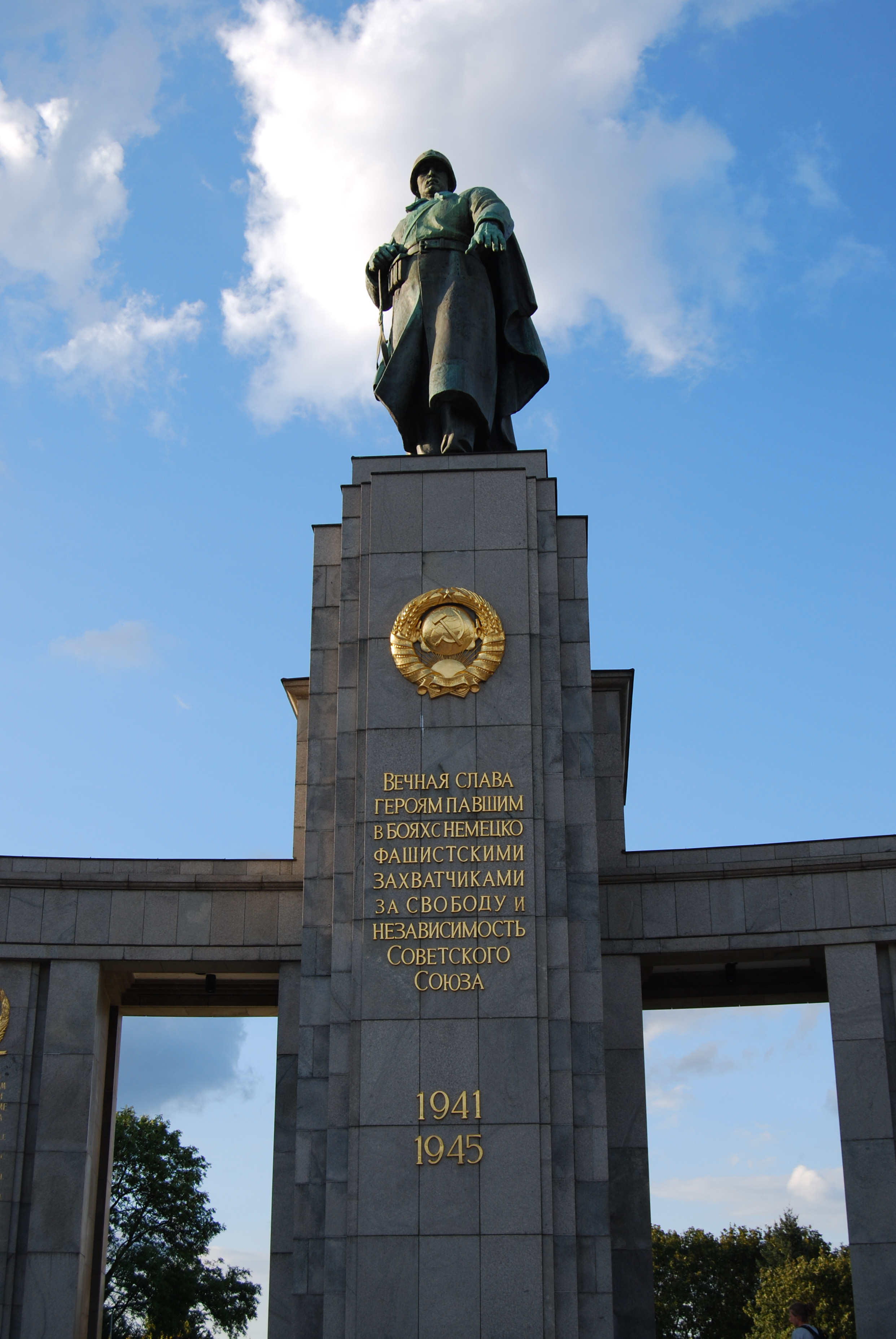 This is a photograph of an architectural monument.